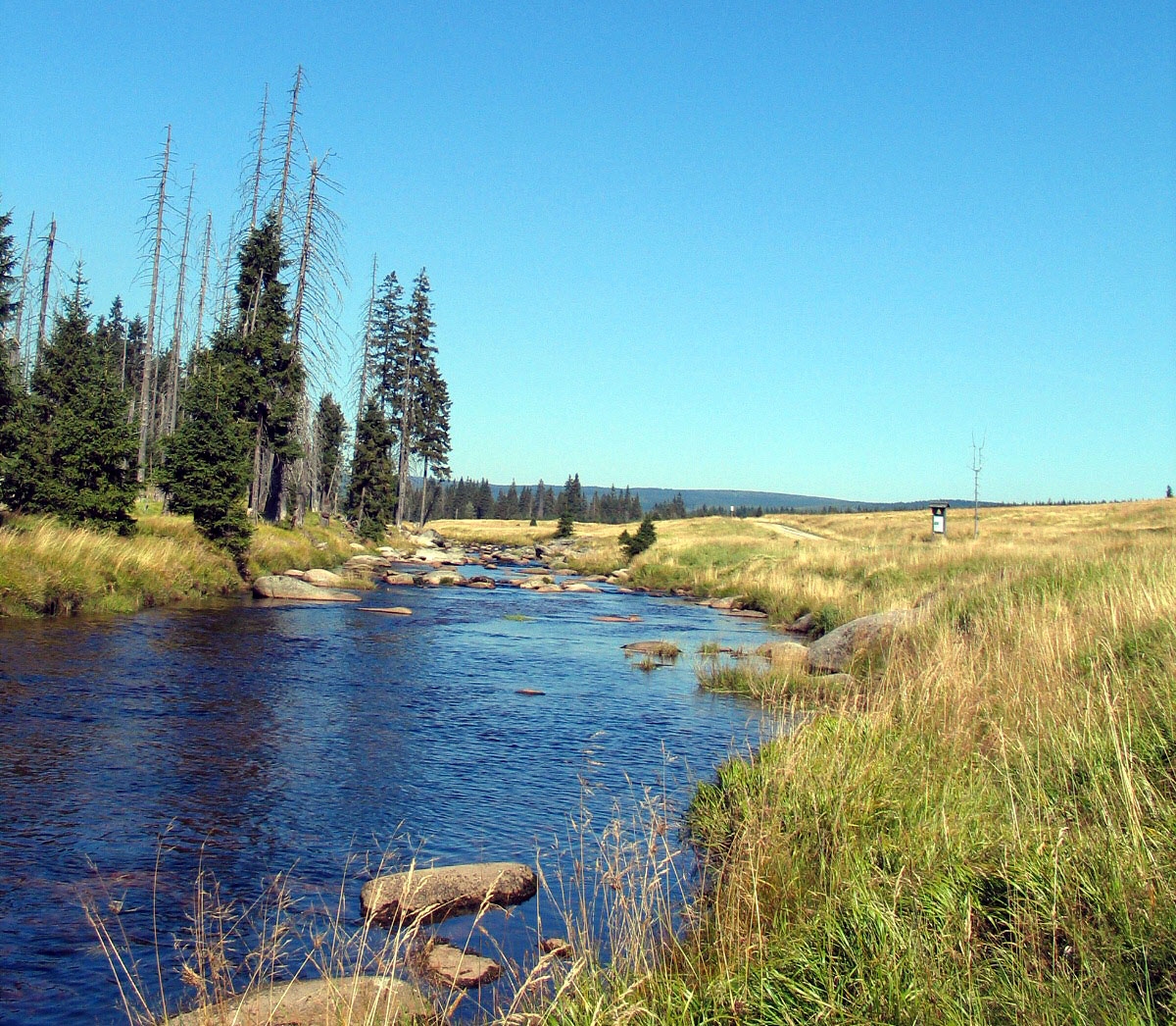 Izera River in the Izerskie Mountains, Poland